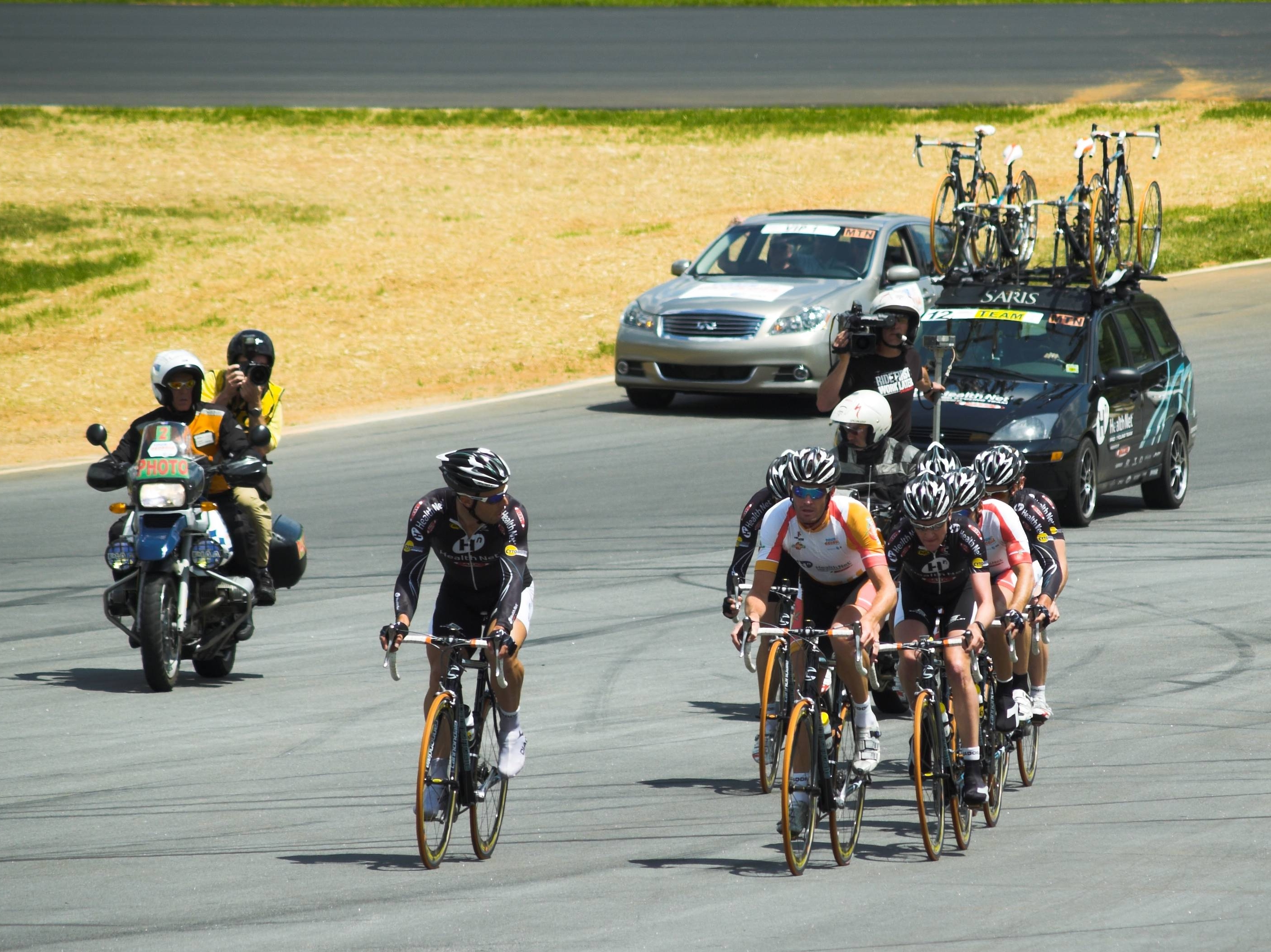 Team Time Trial at Tour de Georgia staged cycling road race, April 24, 2008